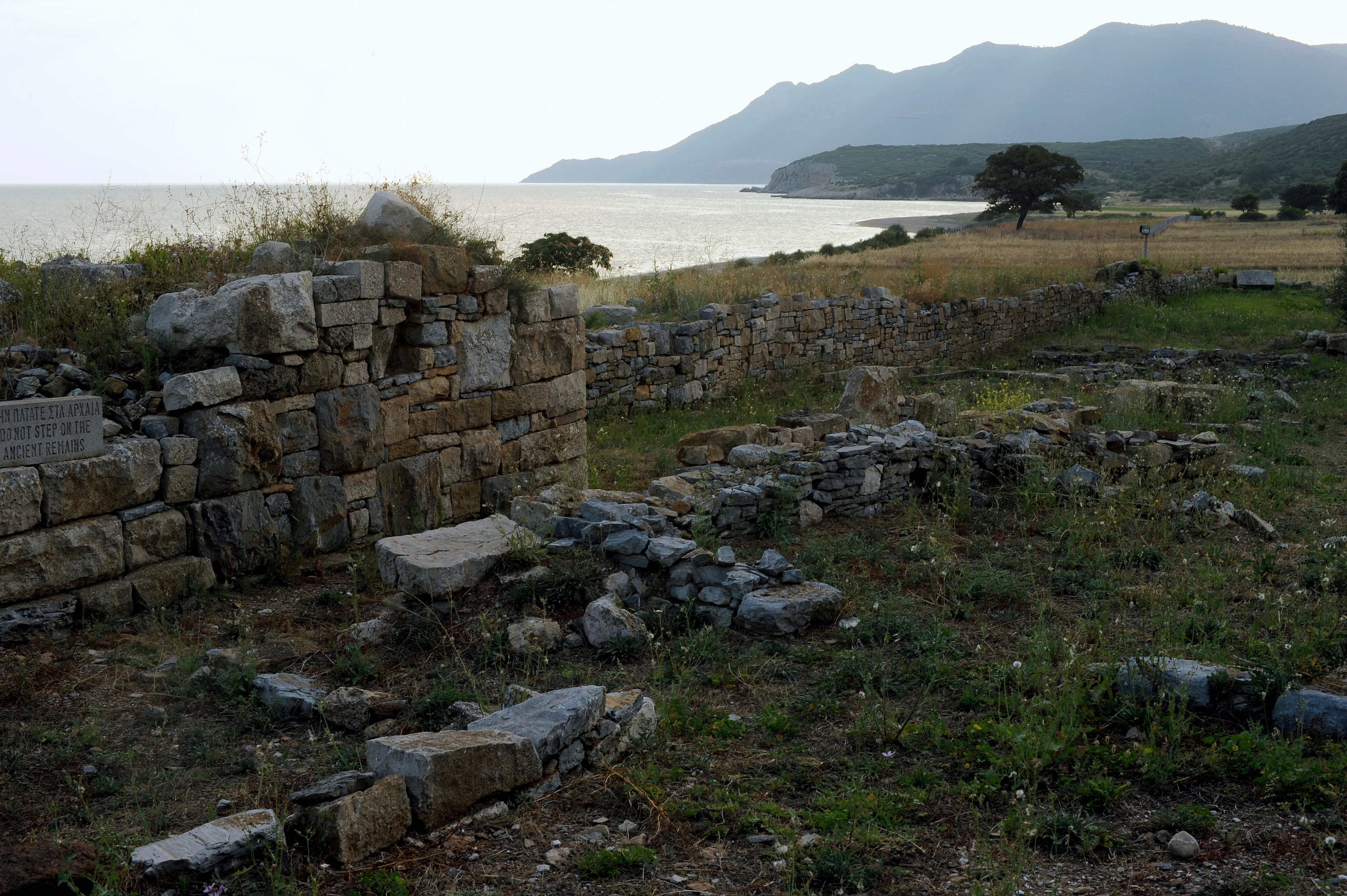 Mesembria archaeological place - Thrace, Greece: landscape.